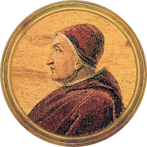 Portrait of Pope Sixtus IV